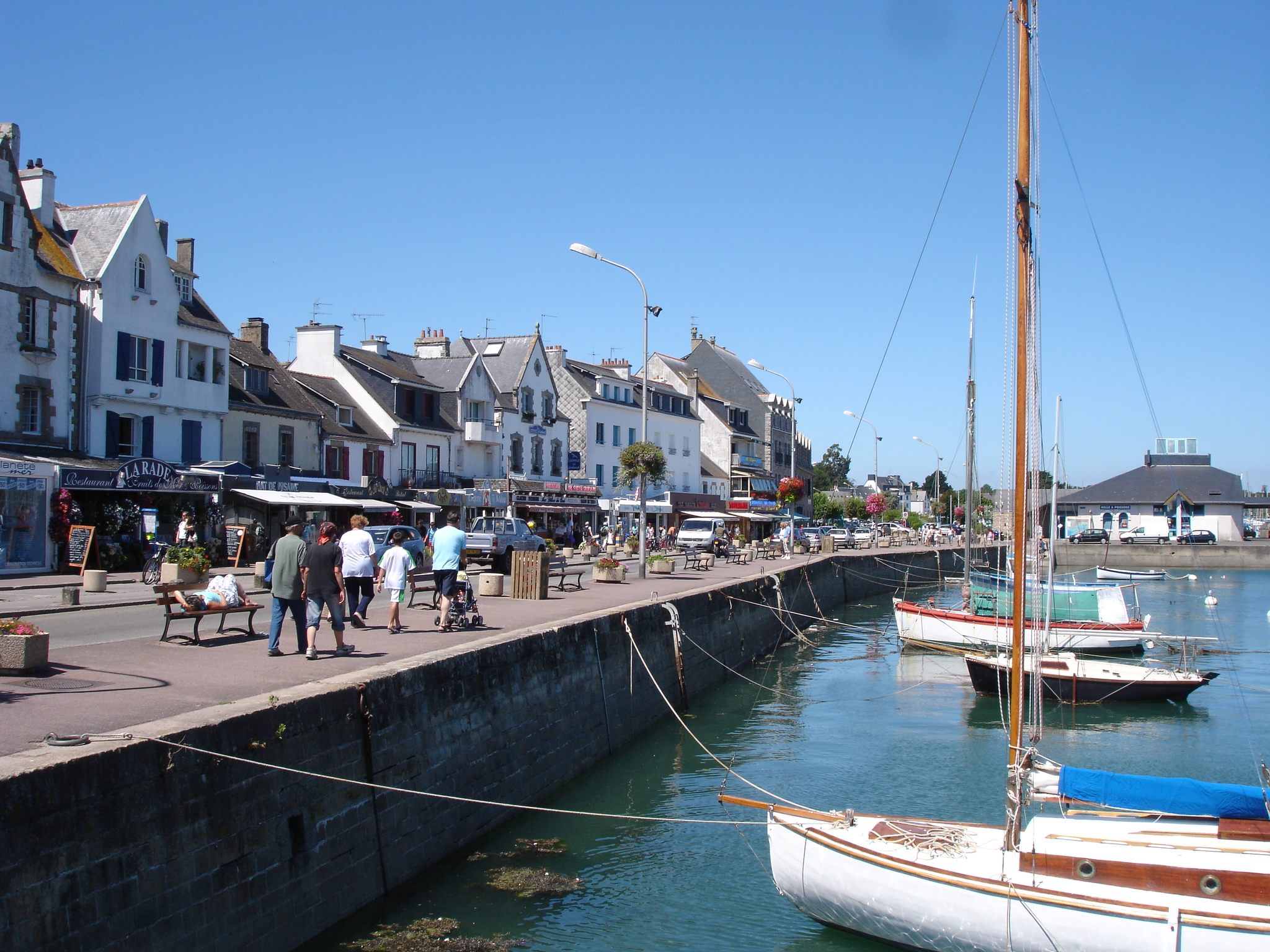 France, Morbihan, La Trinité-sur-Mer